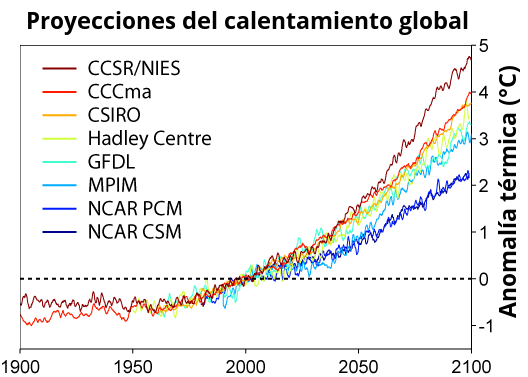 Version in Spanish of Climate model predictions for global warming under the SRES A2 emissions scenario relative to global average temperatures in 2000